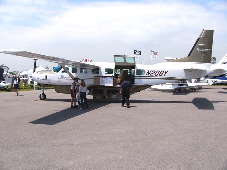 2004 model Cessna 208B Grand Caravan. Cessna 208.